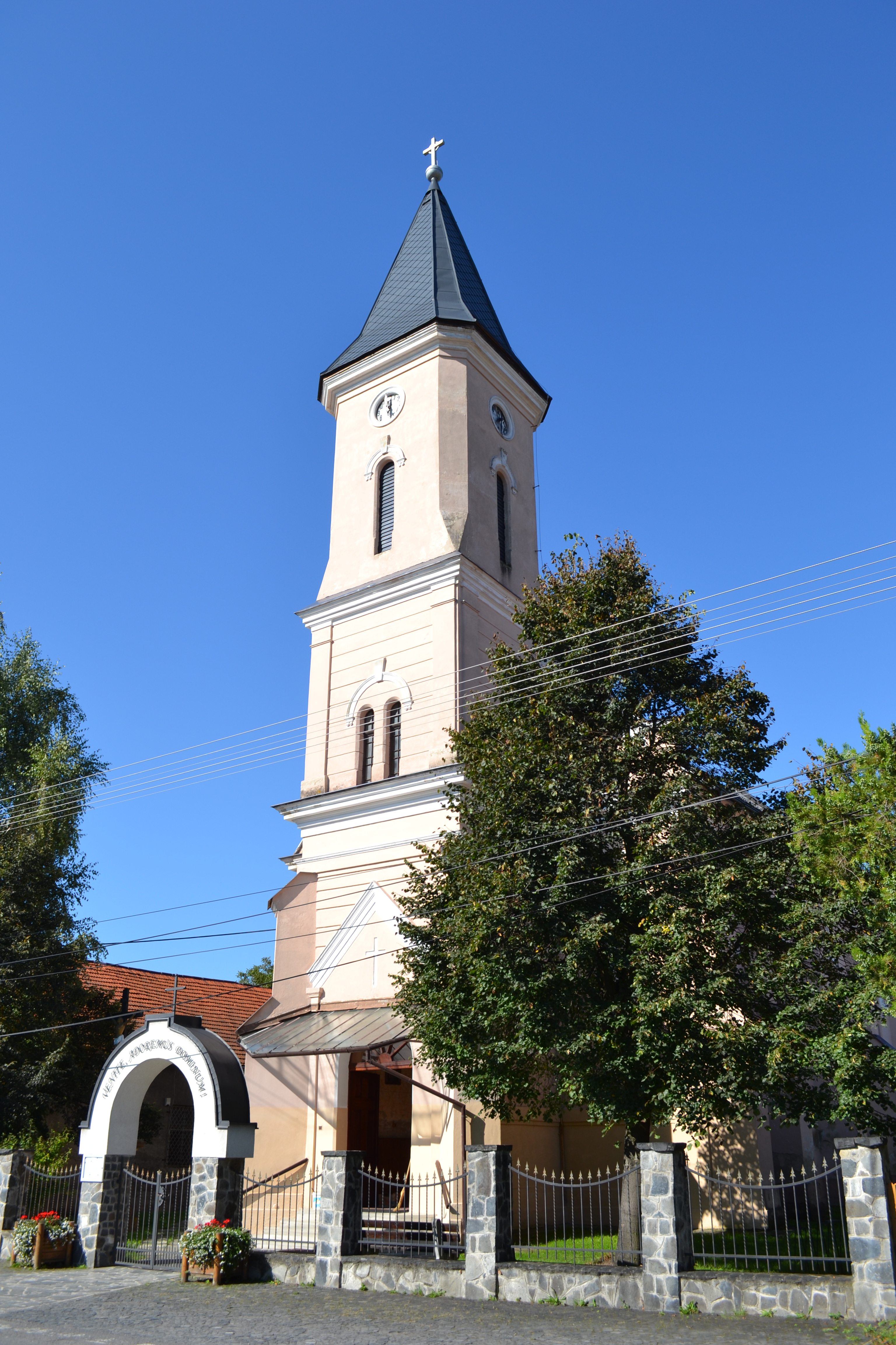 Church of Our Lady Queen (Magna Domina Hungarorum) in Radzovce